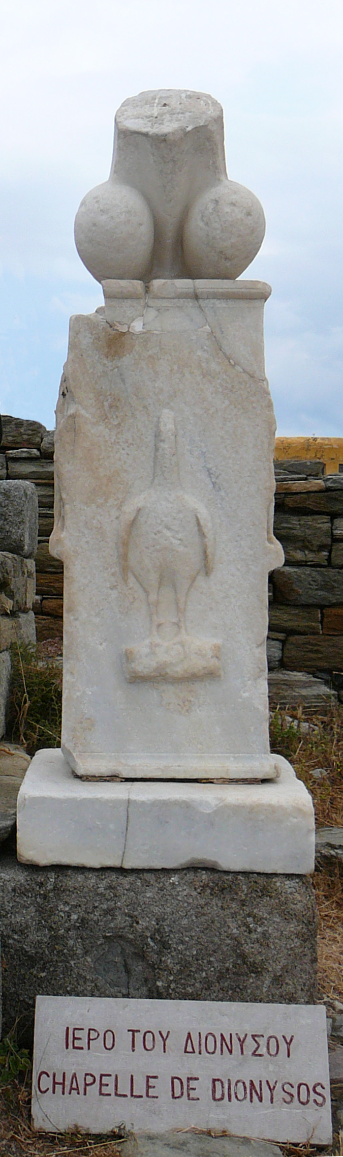 Phallus statue at the Stoivadeion (an ancient temple to Dionysos)